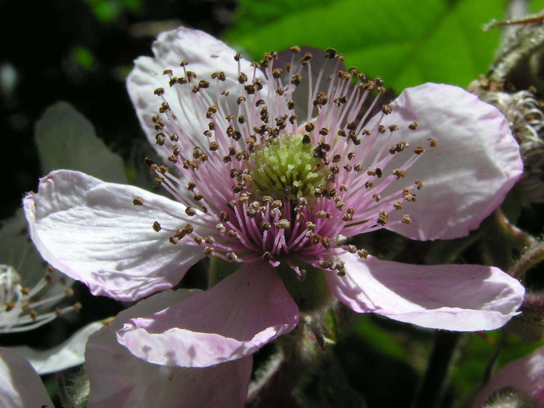 Pink blackberry flower, Wellington, New Zealand.